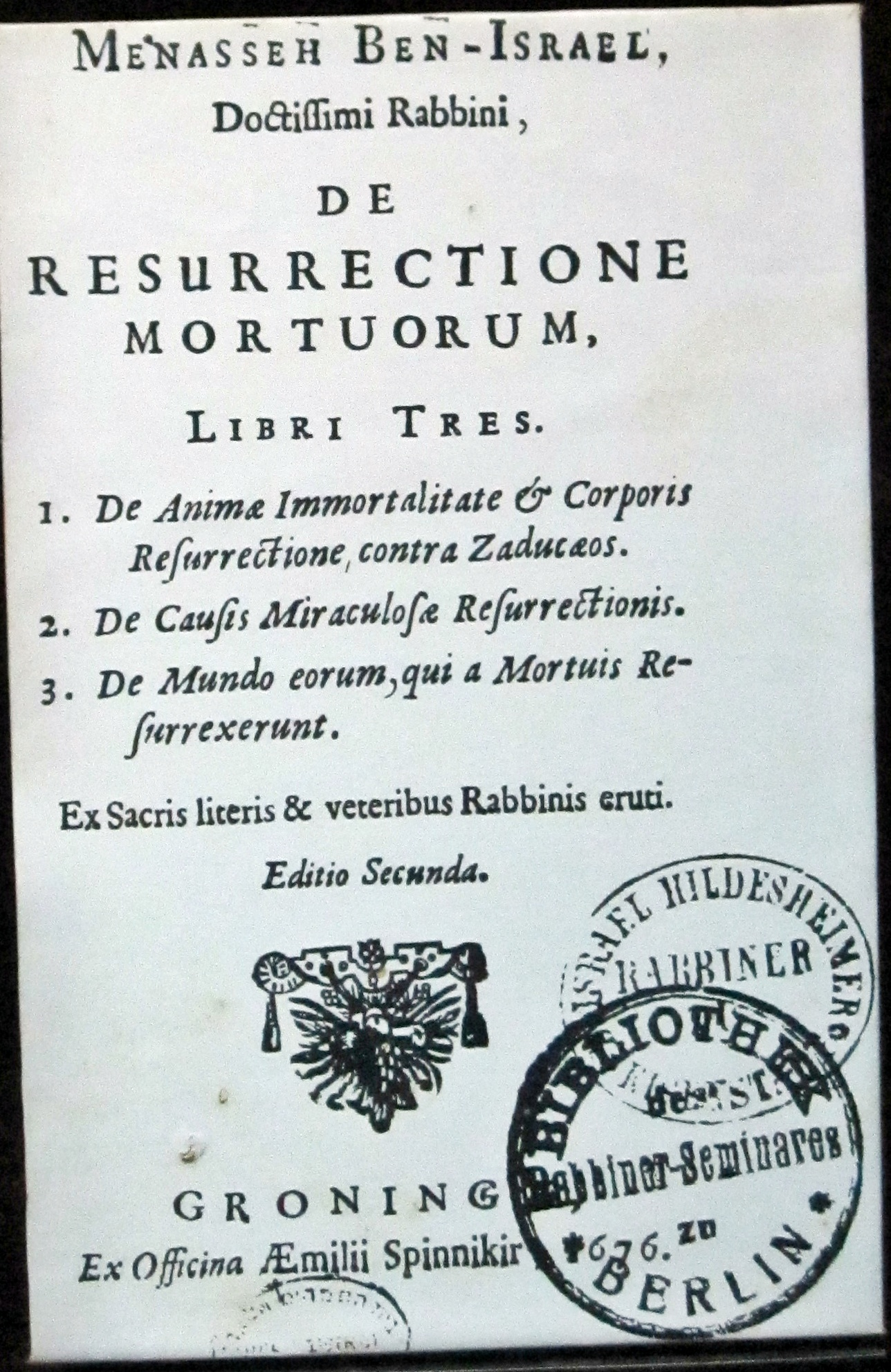 Menassah Ben Israel: De Resurrectione Mortuorum (in three books), second edition, Groningen, 1676